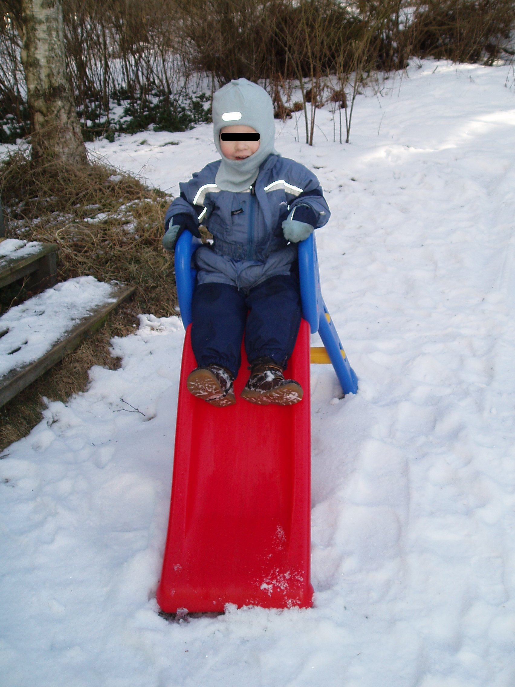 Happynes on the slide. Summer and winther.